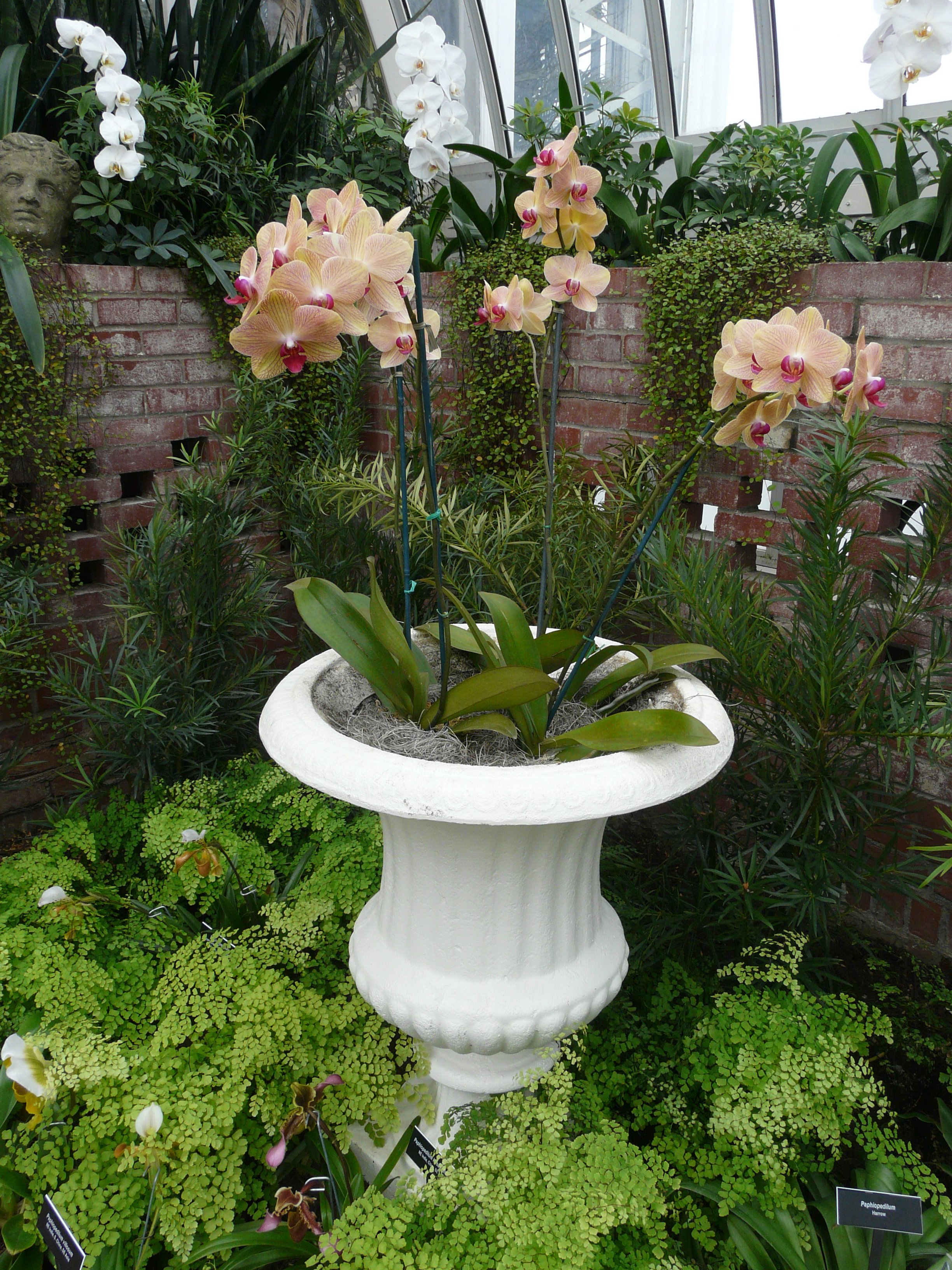 Phipps Conservatory